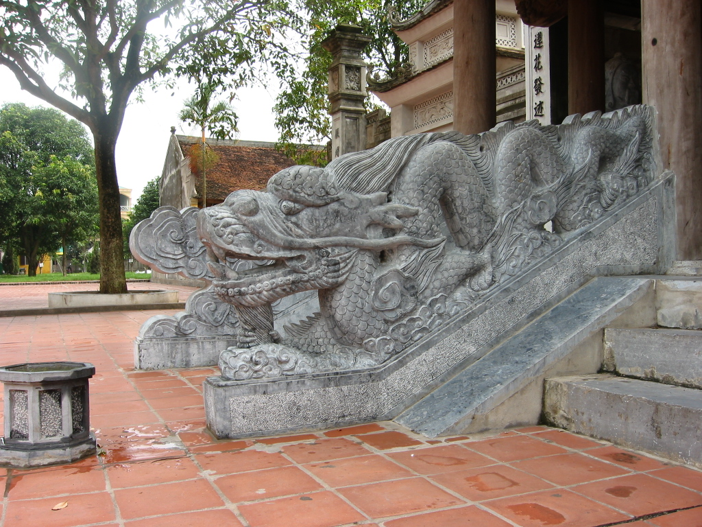 A stone dragon in the front of Ngu Long Mon, Ly Bat De Shrine